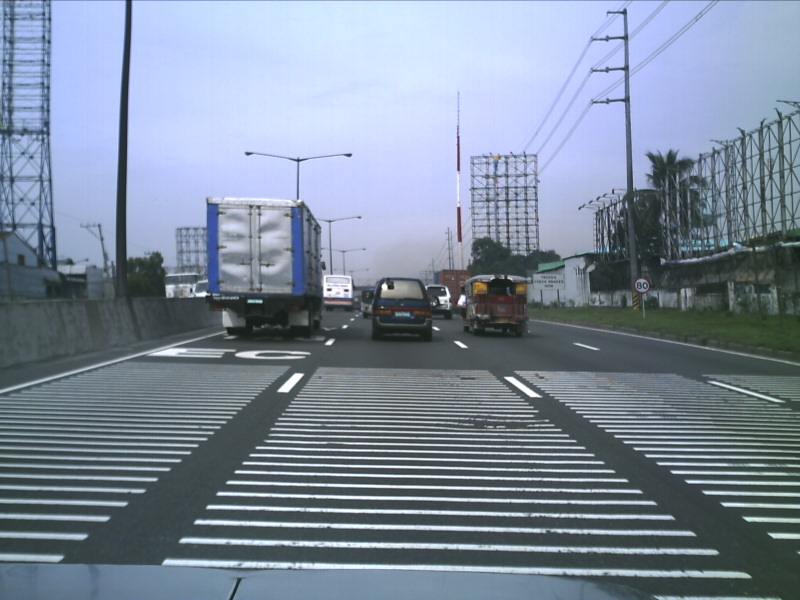 North Luzon Expressway Rumble Strips located along the direction approaching Balintawak Toll Barrier.